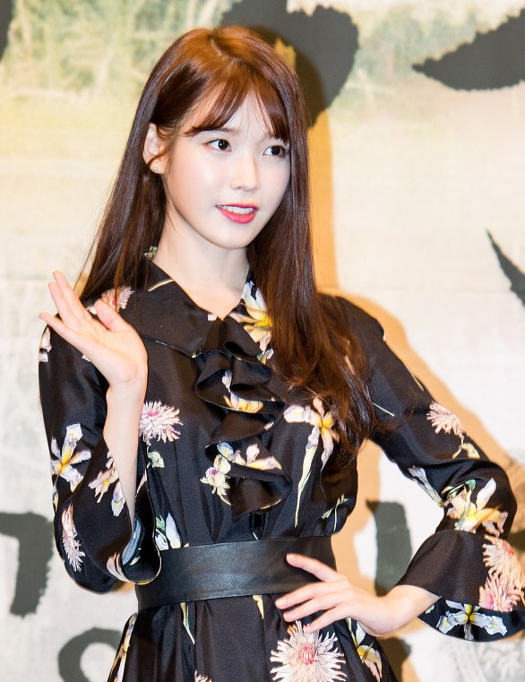 IU at "Moon Lovers - Scarlet Heart Ryeo" press conference, 24 August 2016